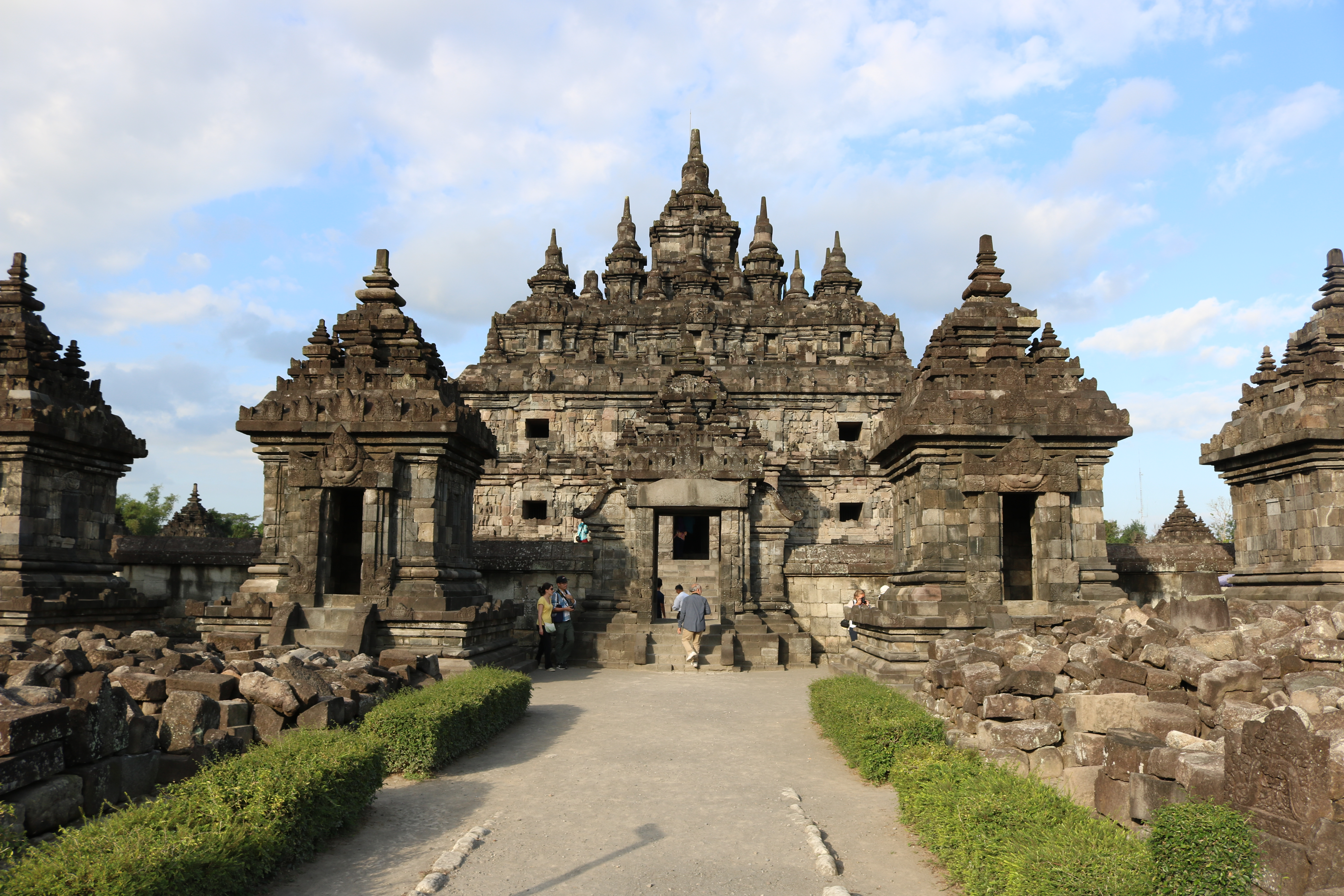 Candi Plaosan Lor (North Plaosan Temple) from Klaten, Central Java, Indonesia